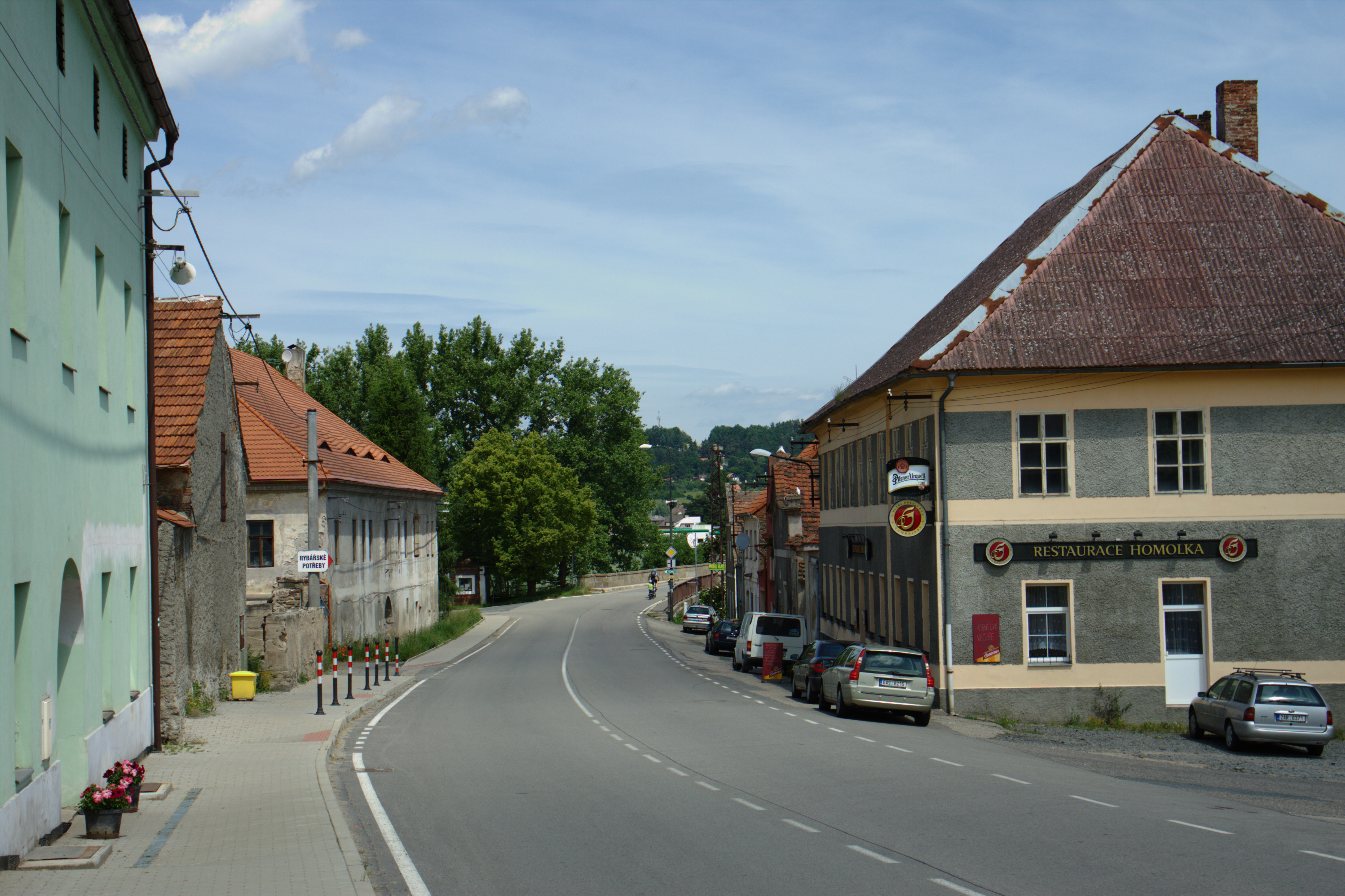 Main road in Poříčí nad Sázavou, Central Bohemian Region, CZ